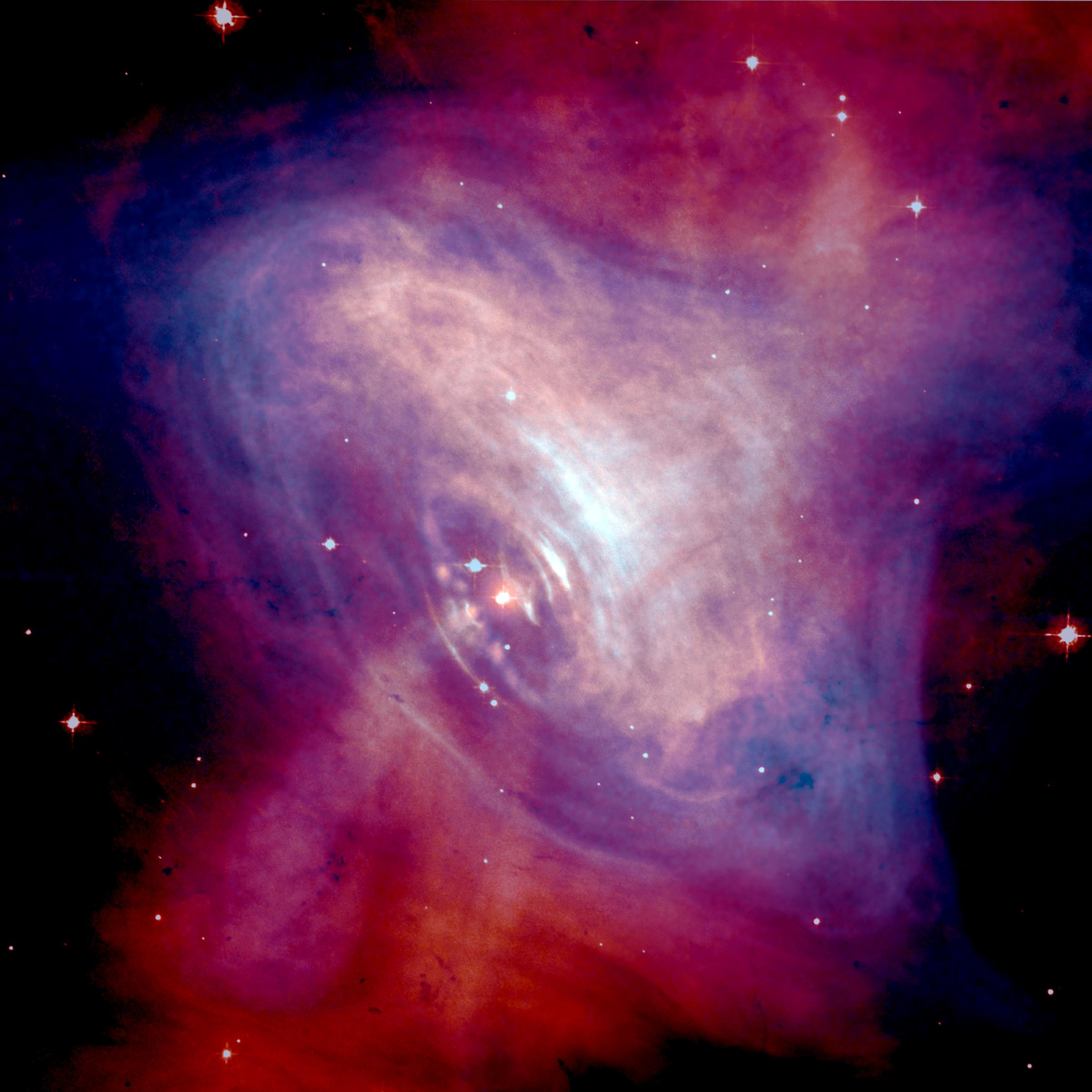 A composite image of the Crab Nebula showing the X-ray (blue), and optical (red) images superimposed. The size of the X-ray image is smaller because the higher energy X-ray emitting electrons radiate away their energy more quickly than the lower energy optically emitting electrons as they move.